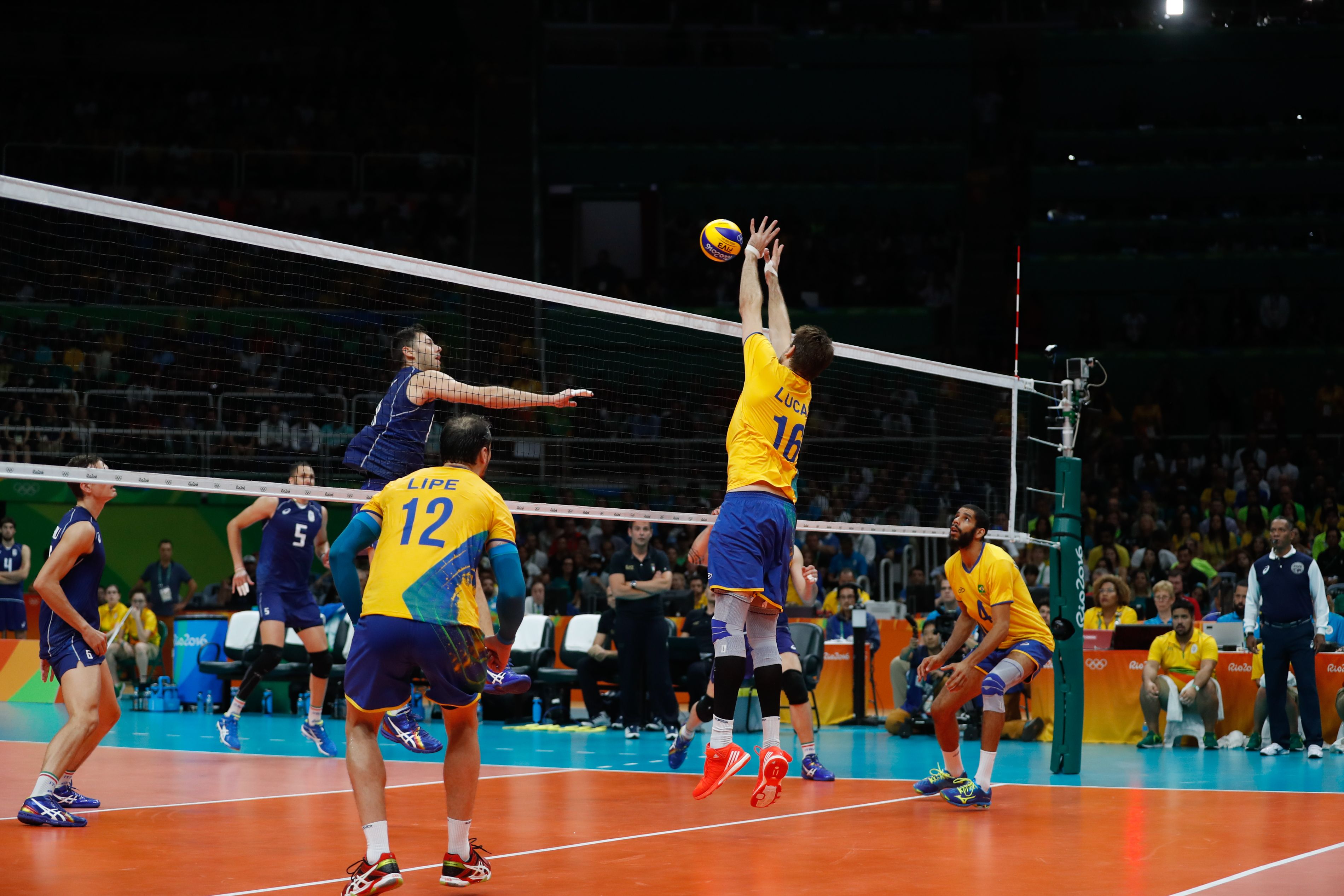 Rio de Janeiro - Seleção brasileira de vôlei disputa contra a Itália a final dos Jogos Olímpicos Rio 2016 no Maracanãzinho(Fernando Frazão/Agência Brasil)